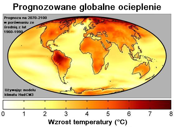 A comparison of predictions of global warming from 8 different climate models assuming the SRES A2 emissions scenario. This figure shows the predicted distribution of temperature change due to global warming from Hadley Centre HadCM3 climate model [1]. These changes are based on the IS92a ("business as usual") projections of carbon dioxide and other greenhouse gas emissions during the next century, and essentially assume normal levels of economic growth and no significant steps are taken to combat global greenhouse gas emissions. The plotted colors show predicted surface temperature changes expressed as the average prediction for 2070-2100 relative to the model's baseline temperatures in 1960-1990. The average change is 3.0°C, placing this model towards the low end of the Intergovernmental Panel on Climate Change's 1.4-5.8°C predicted climate change from 1990 to 2100 [2]. As can be expected from their lower specific heat, continents warm more rapidly than the oceans in the model with an average of 4.2°C to 2.5°C respectively. The lowest predicted warming is 0.55°C south of South America, and the highest is 9.2°C in the Arctic Ocean (points exceeding 8°C are plotted as black). This model is fairly homogeneuous except for strong warming around the Arctic Ocean related to melting sea ice and strong warming in South America related predicted changes in the El Niño cycle. This pattern is not a universal feature of models, as other models can produce large variations in other regions (e.g Africa and India) and less extreme changes in places like South America.